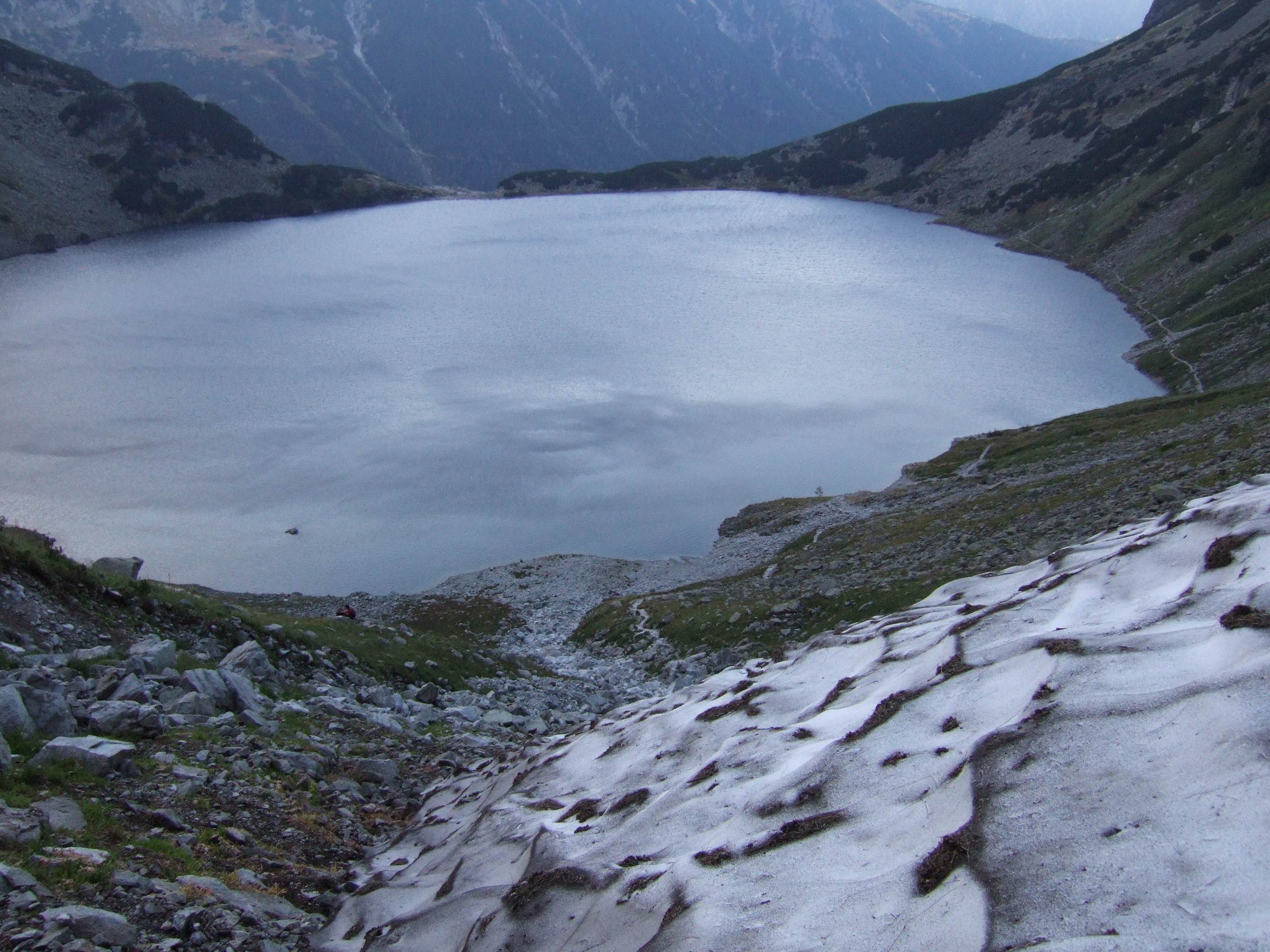 Lake Czarny Staw in the Polish High Tatra mountains, with some remaining snow ., Tatras, Poland